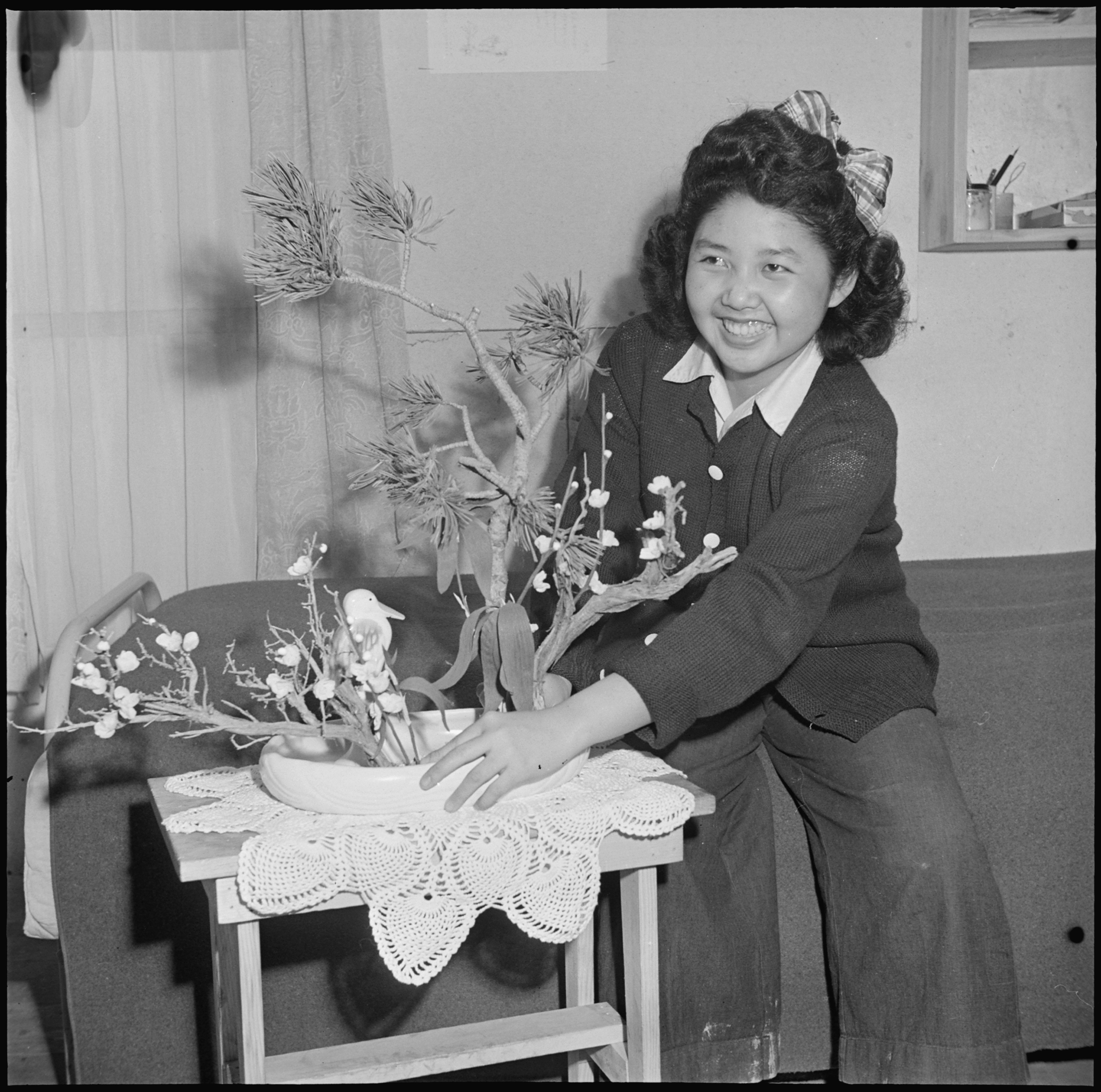 Scope and content: The full caption for this photograph reads: Heart Mountain Relocation Center, Heart Mountain, Wyoming. Ruby Hifumi, 16 year old high school student with a special New Year's flower arrangement. The material is a piece of pine, a sprig of sage with paper flowers indicating a plum tree and paper bamboo. The flower arrangement of the three materials symbolizes in order, hardness, courage and strength.